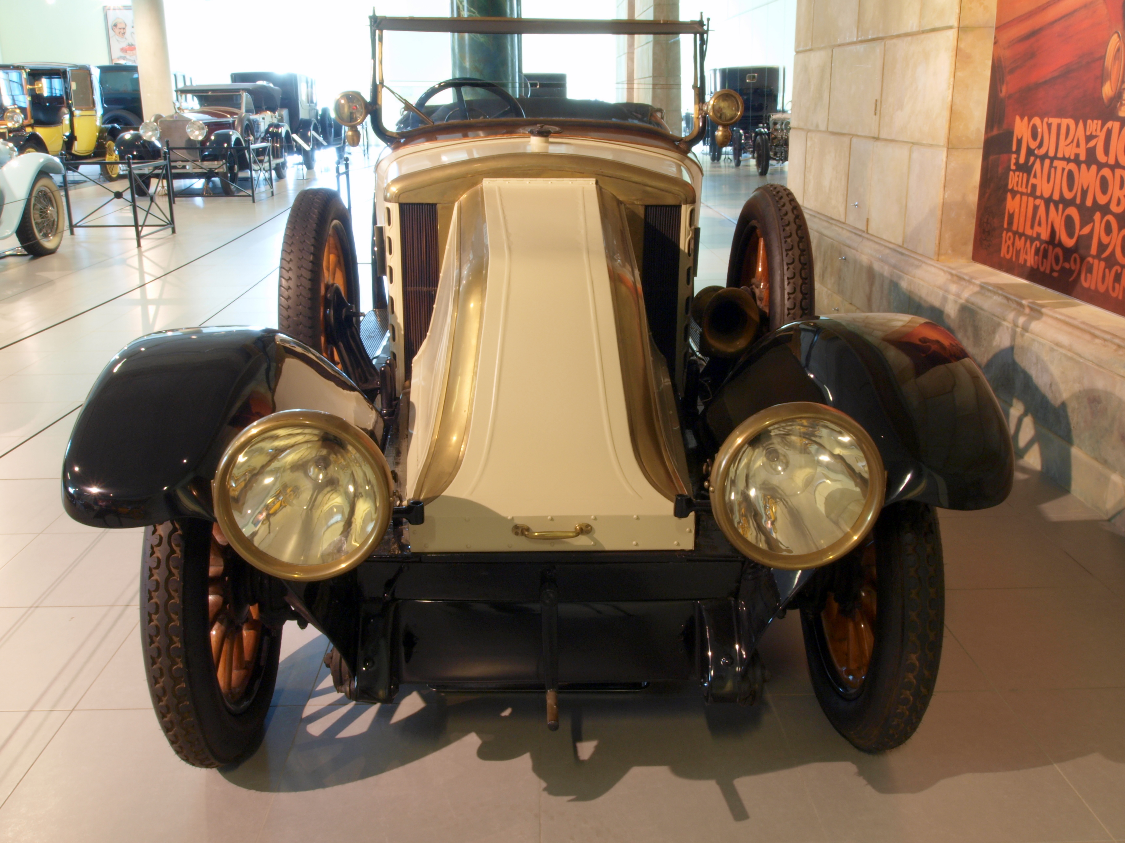 Renault 40CV Type JP Torpedo by Wiederkehr, Colmar (1922). Photographed at the Louwman museum / Louwman Collection, The Netherlands.